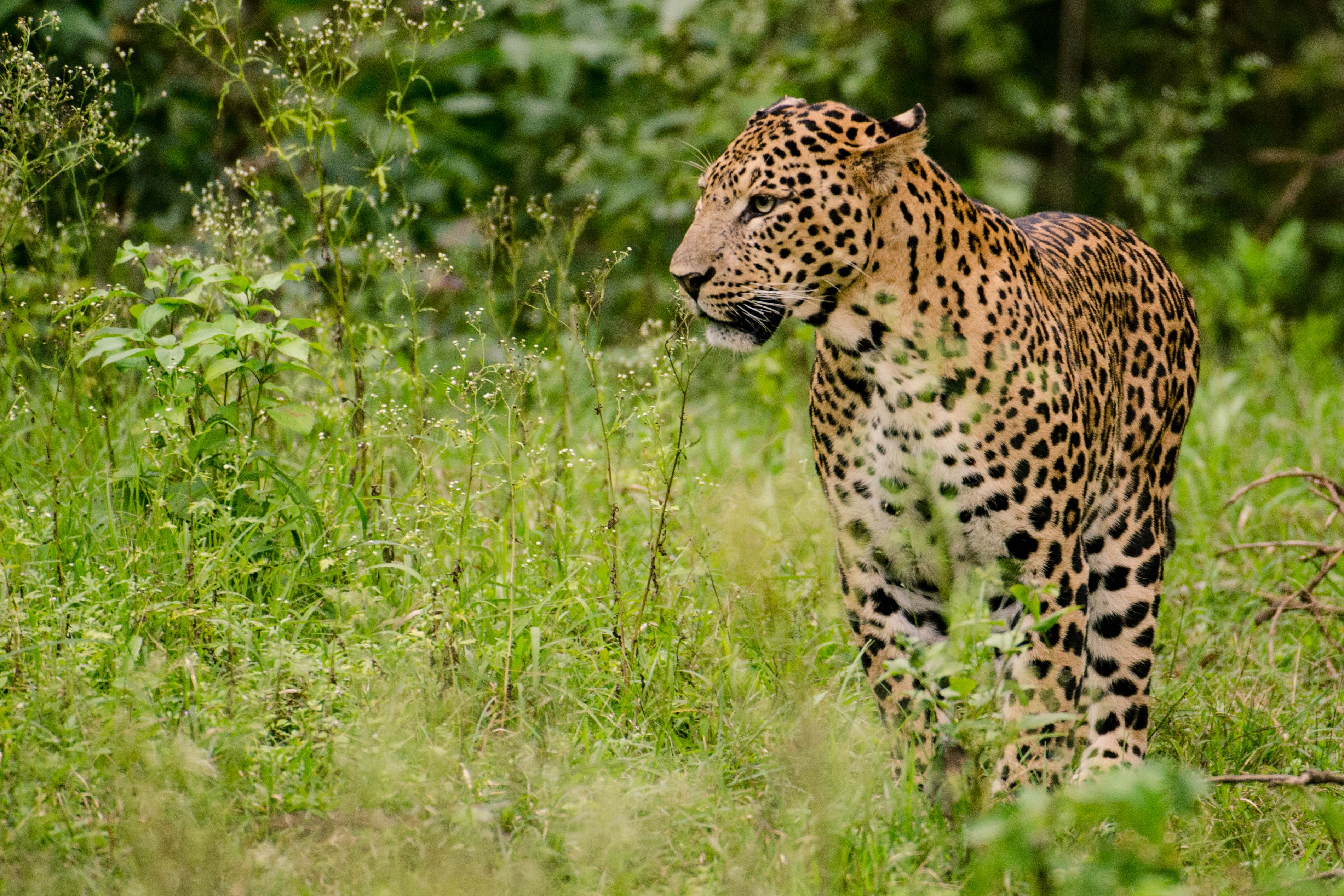 Indian lepard male (Panthera pardus fusca) at Rajiv Gandhi Tiger Reserve, Nagarhole, Kabini, Karnataka, India